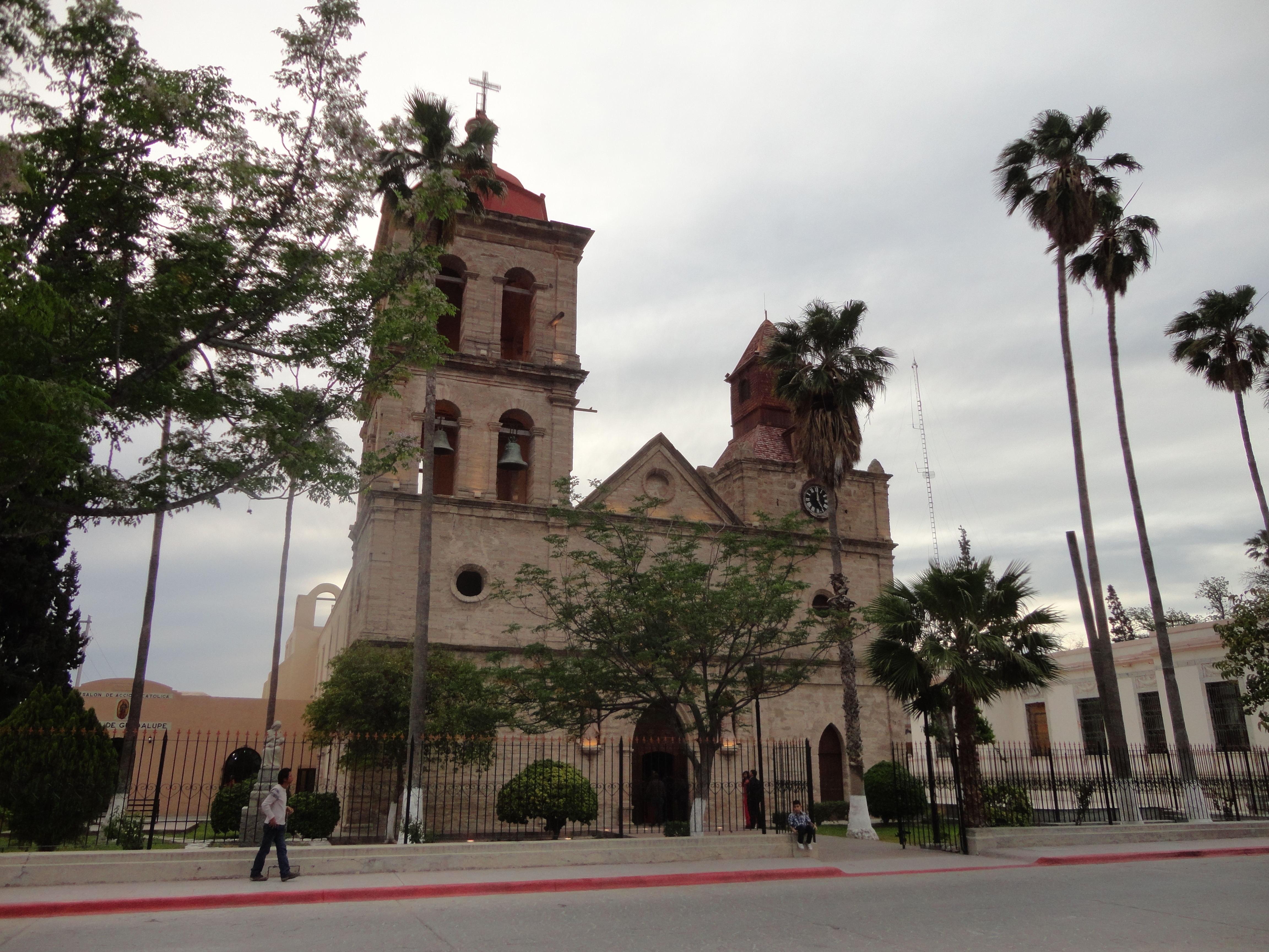 Saint Joseph Parish - Cuatro Cienegas, Coahuila, Mexico.